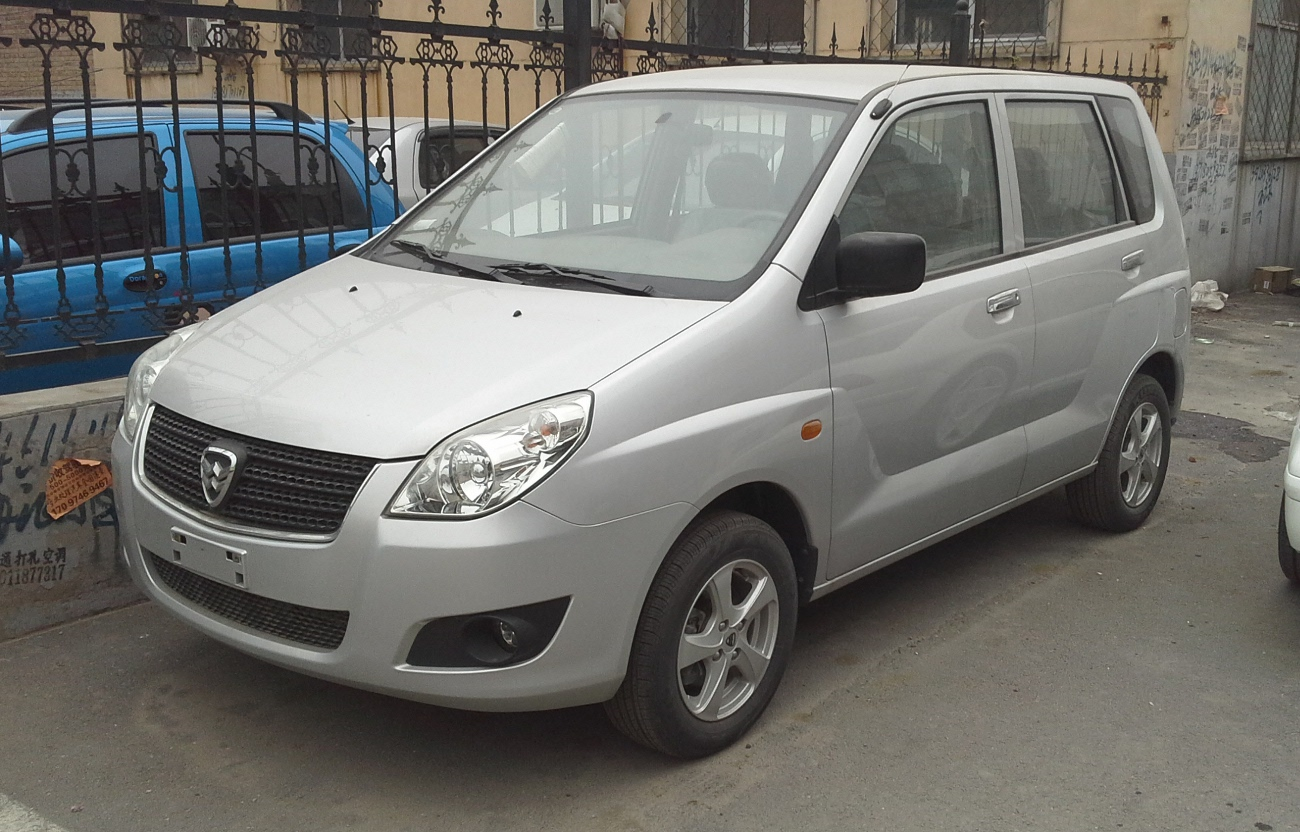 Hafei Saima facelift II photographed in Beijing, China.